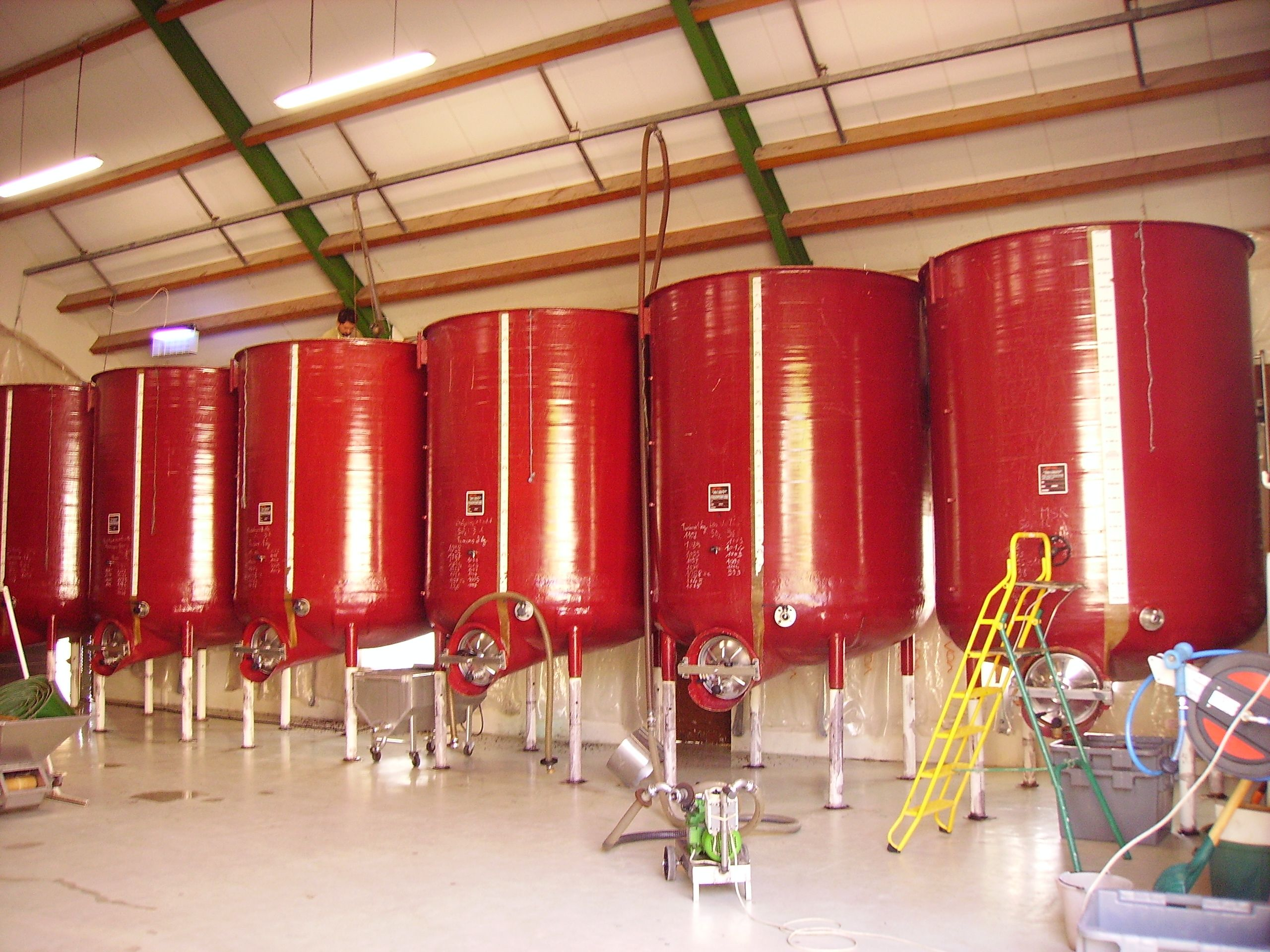 Composite (polyester/epoxy - fiberglass) fermentation tanks for red winemaking. Unit capacity: 7 m3. The « cap » of black grape skins that forms on a fermenting wine being pushed down by pumping. Photo taken in Crézancy-en-Sancerre, Cher department, Centre-Val de Loire region, France.